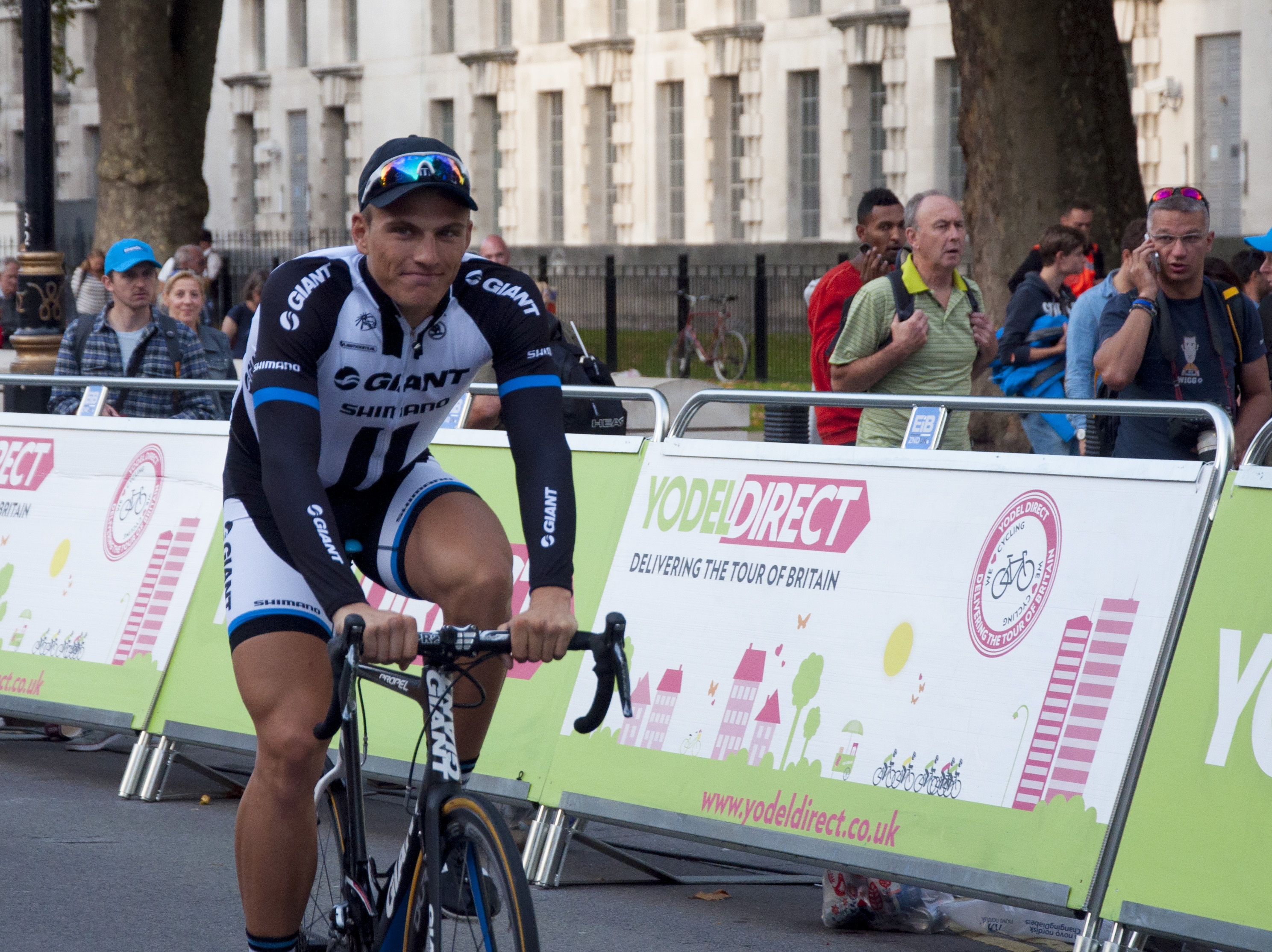 Team Giant Shimano's Marcel Kittel cycles back to the team bus after winning stage 8 of the 2014 Tour of Britain in London Marcel Kittel in the Tour of Britain 2014